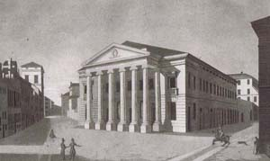 Nuovo Teatro in Mantova, Etching Aquatint.